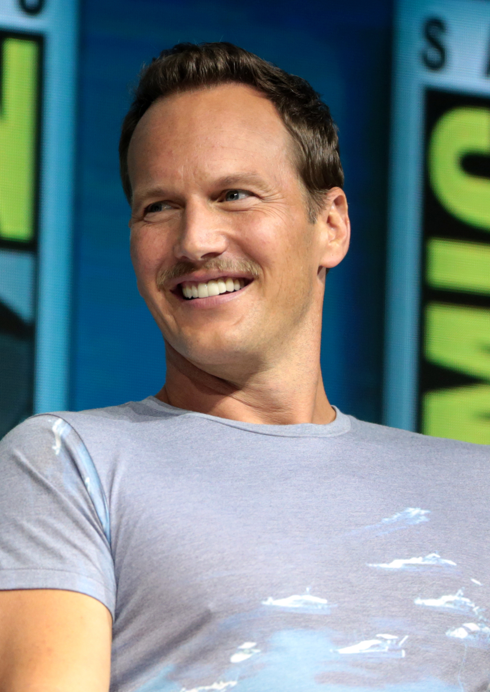 Patrick Wilson speaking at the 2018 San Diego Comic-Con International in San Diego, California.